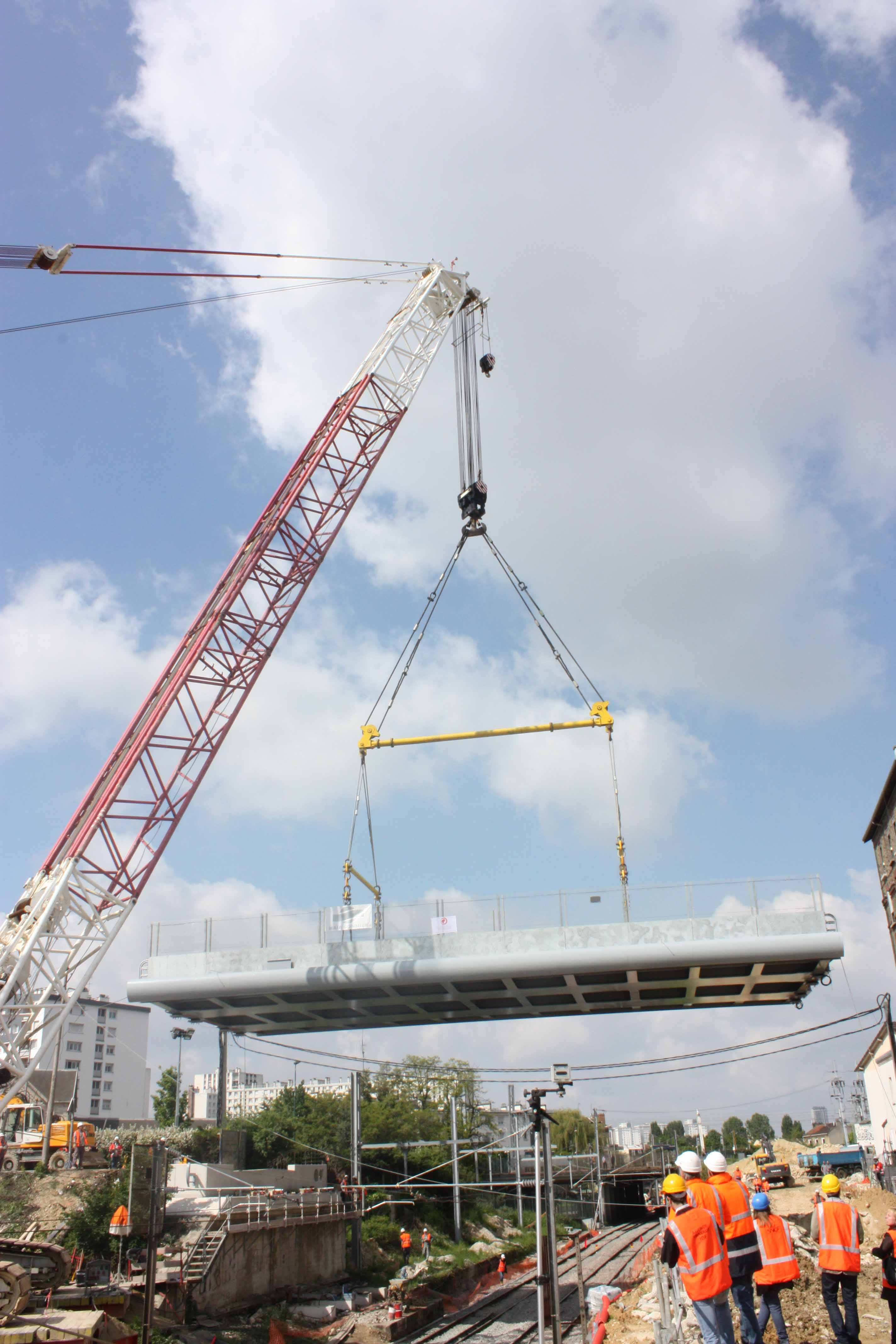 Road Bridge Epinay